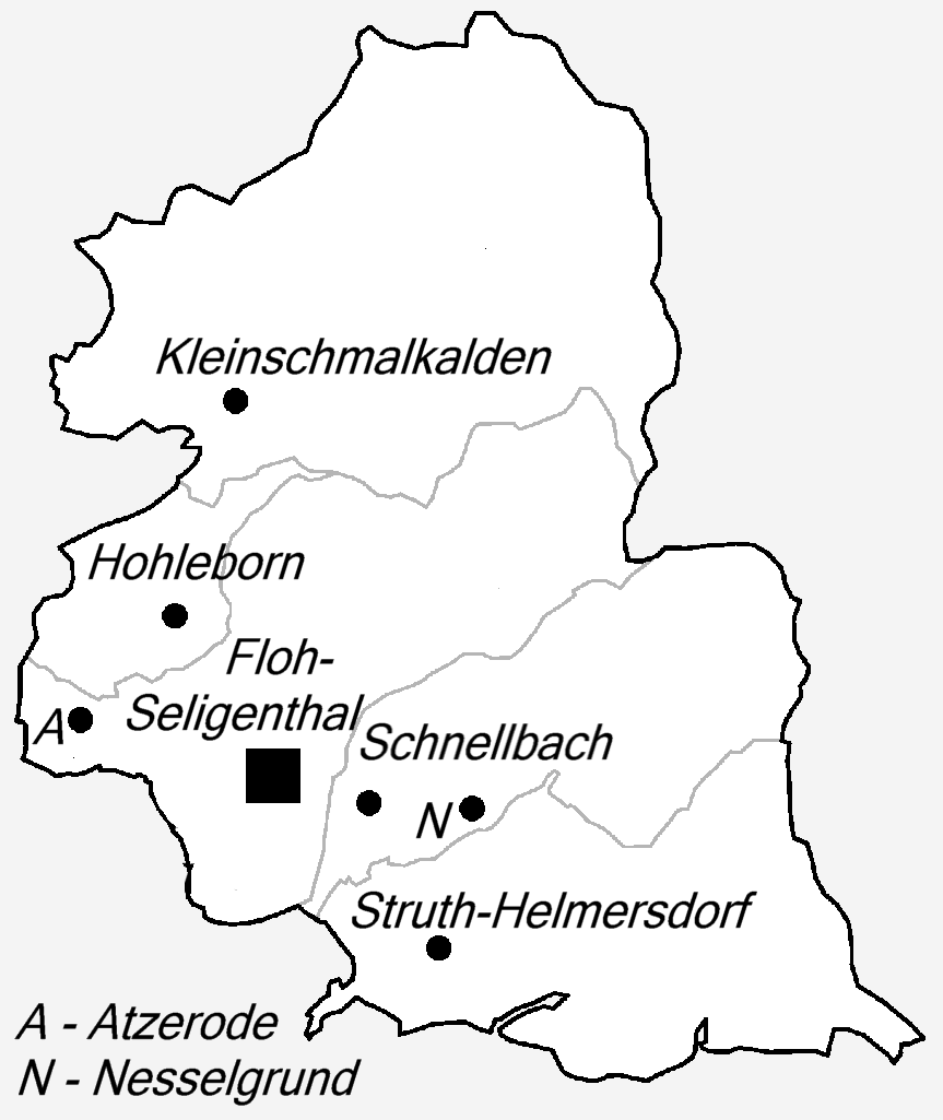 District-Maps of Floh-Seligenthal.